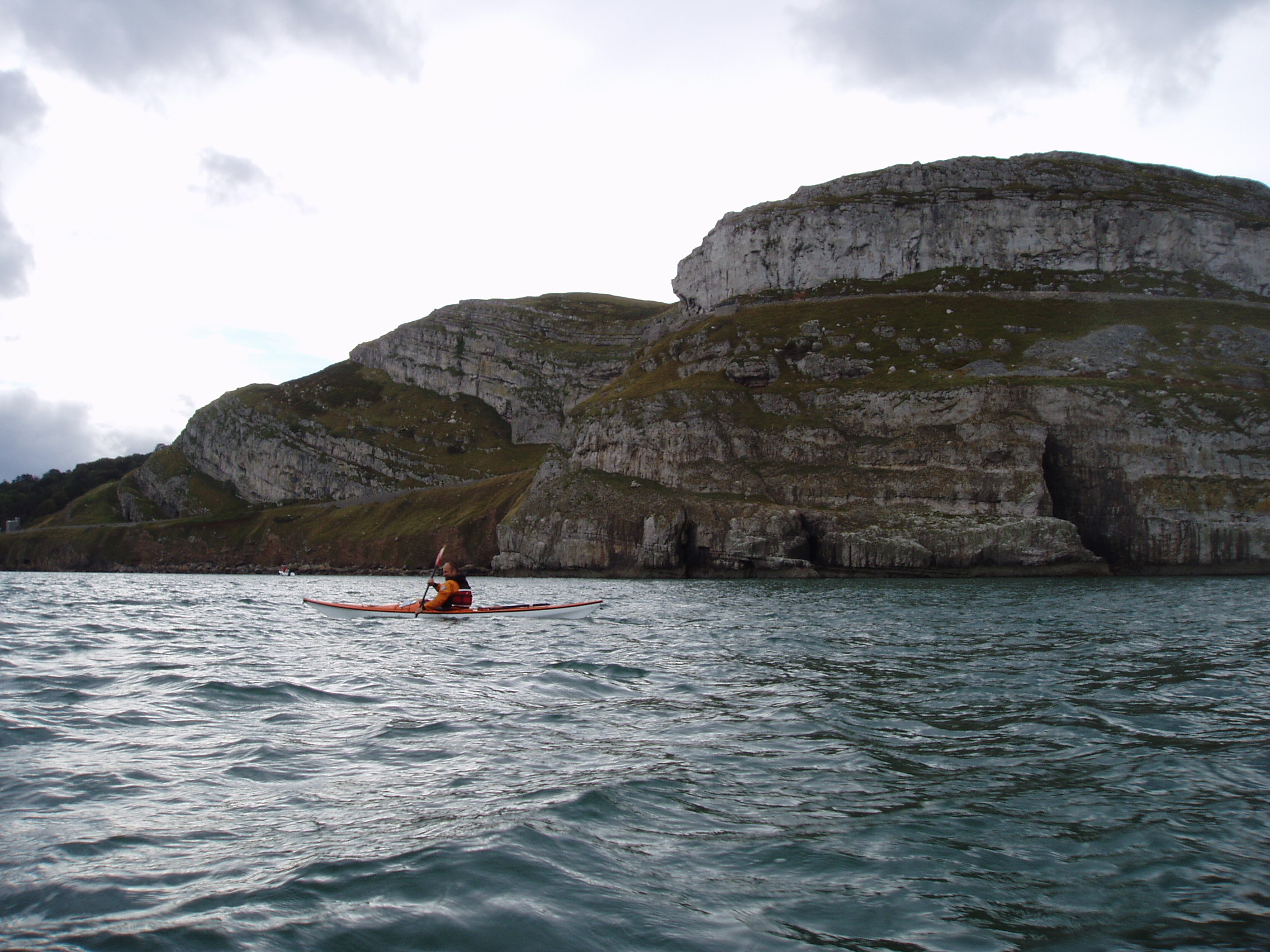 A sea kayaker near the cliffs of the Great Orme at Llandudno, Wales.